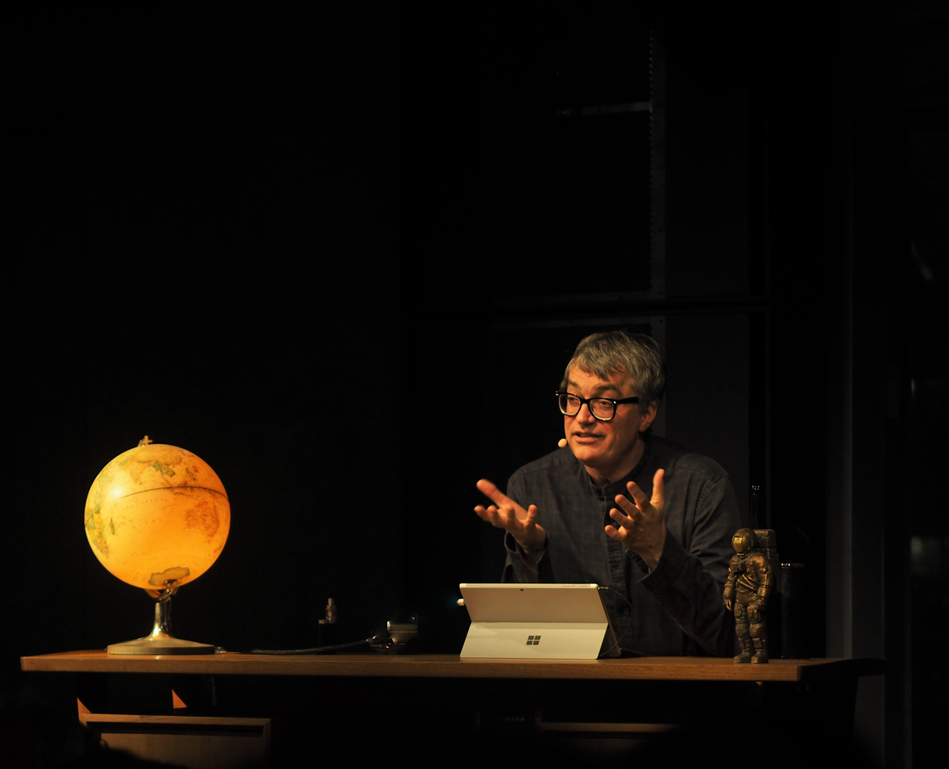 Ben Moore speaking at the KOSMOS center in Zurich 2017